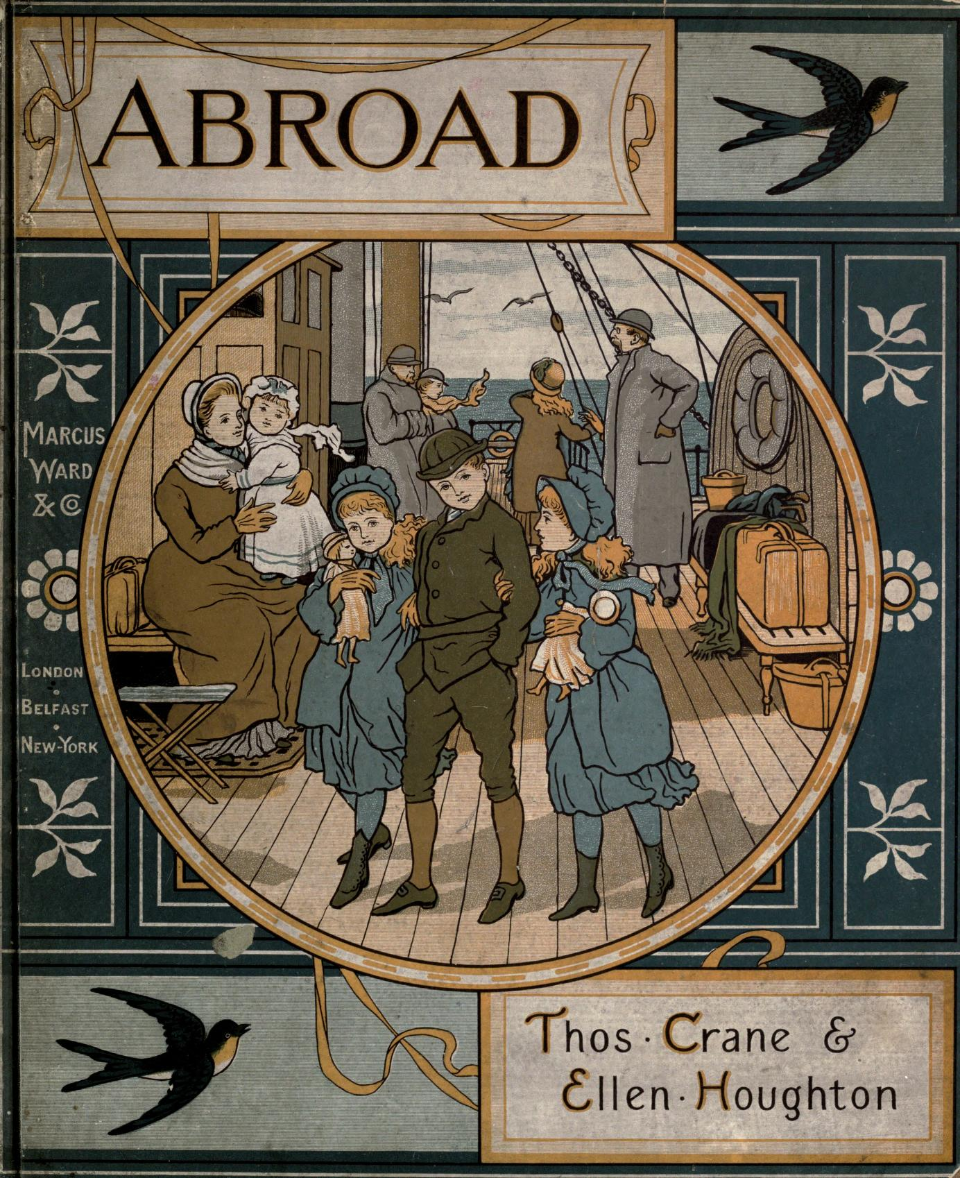 Cover